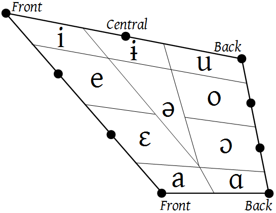 The original IPA vowel quadrilateral, from Daniel Jones' articulation, before being simplified to the current trapezoid.